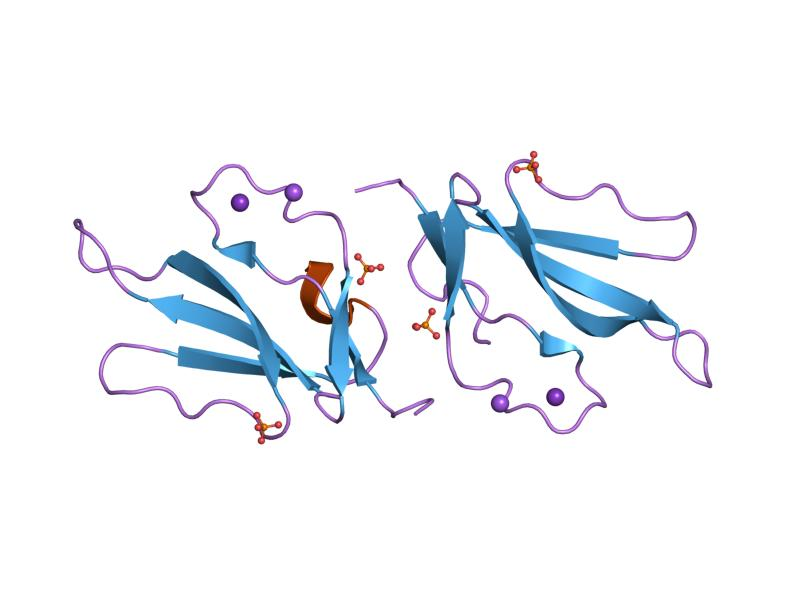 Cartoon representation of the molecular structure of protein registered with 2h5f code.